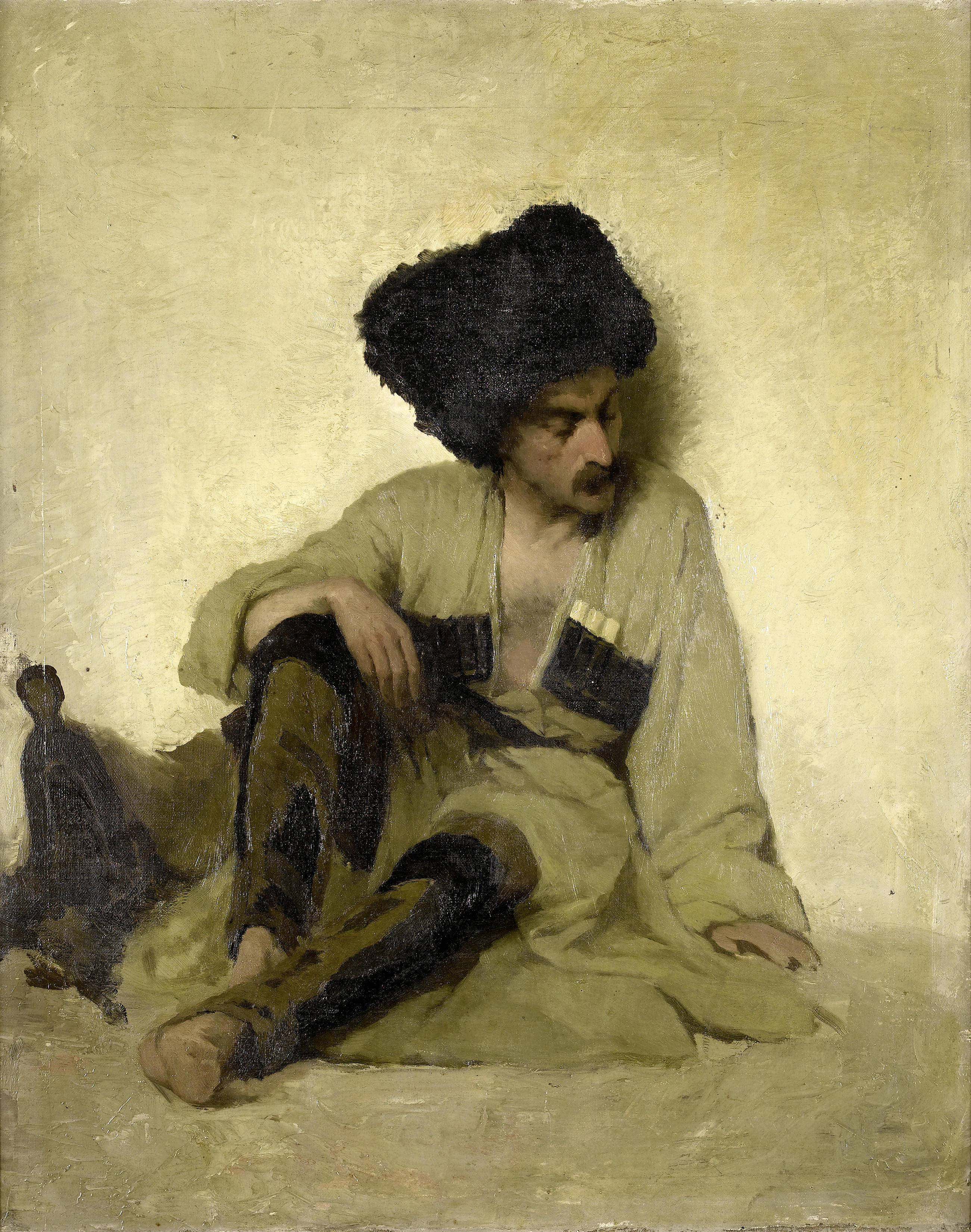 A Caucasian in a papakha with a saddle beside him